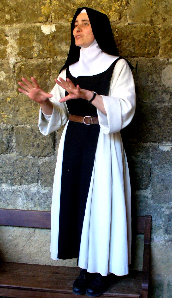 Prioress of the Cistercian abbey of Saint Mary of Rieunette near Carcassonne (France).